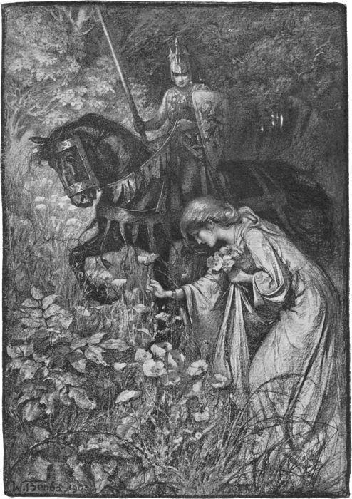 Uther, on horseback and disguised as Pelleas, watches Igraine picking flowers. "Pelleas watched her as her grey gown went amid the green and red", from Uther and Igraine, Warwick Deeping, illustrated by "W. Benda".